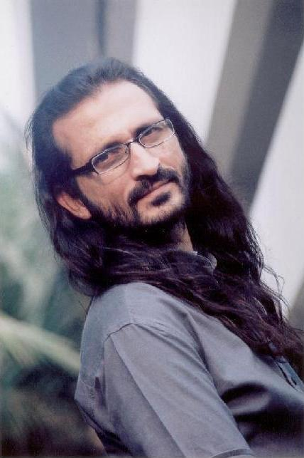 Ali Moeen, Pakistani dramatist and lyricist